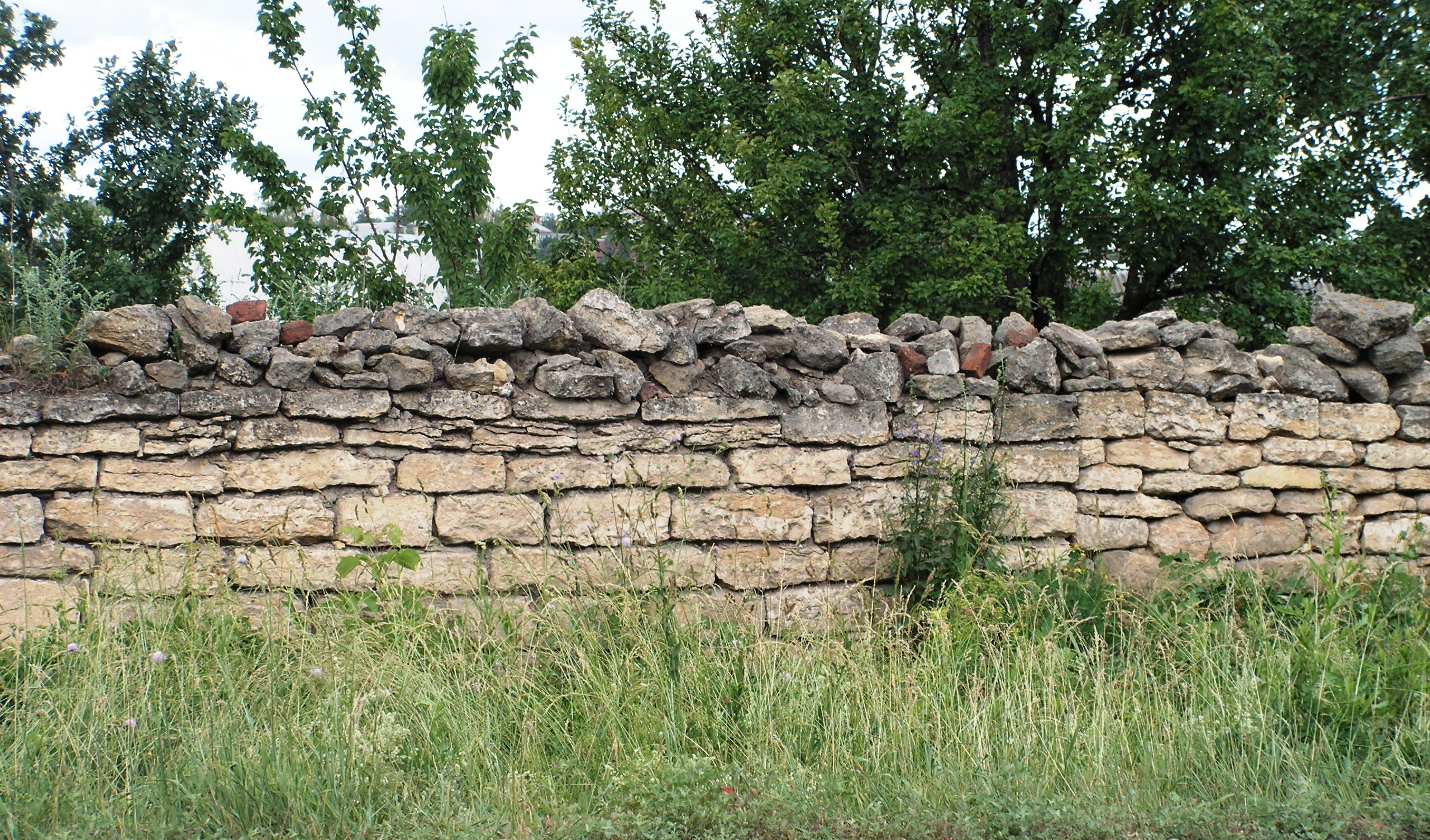 A limestone fence in Livny, Russia